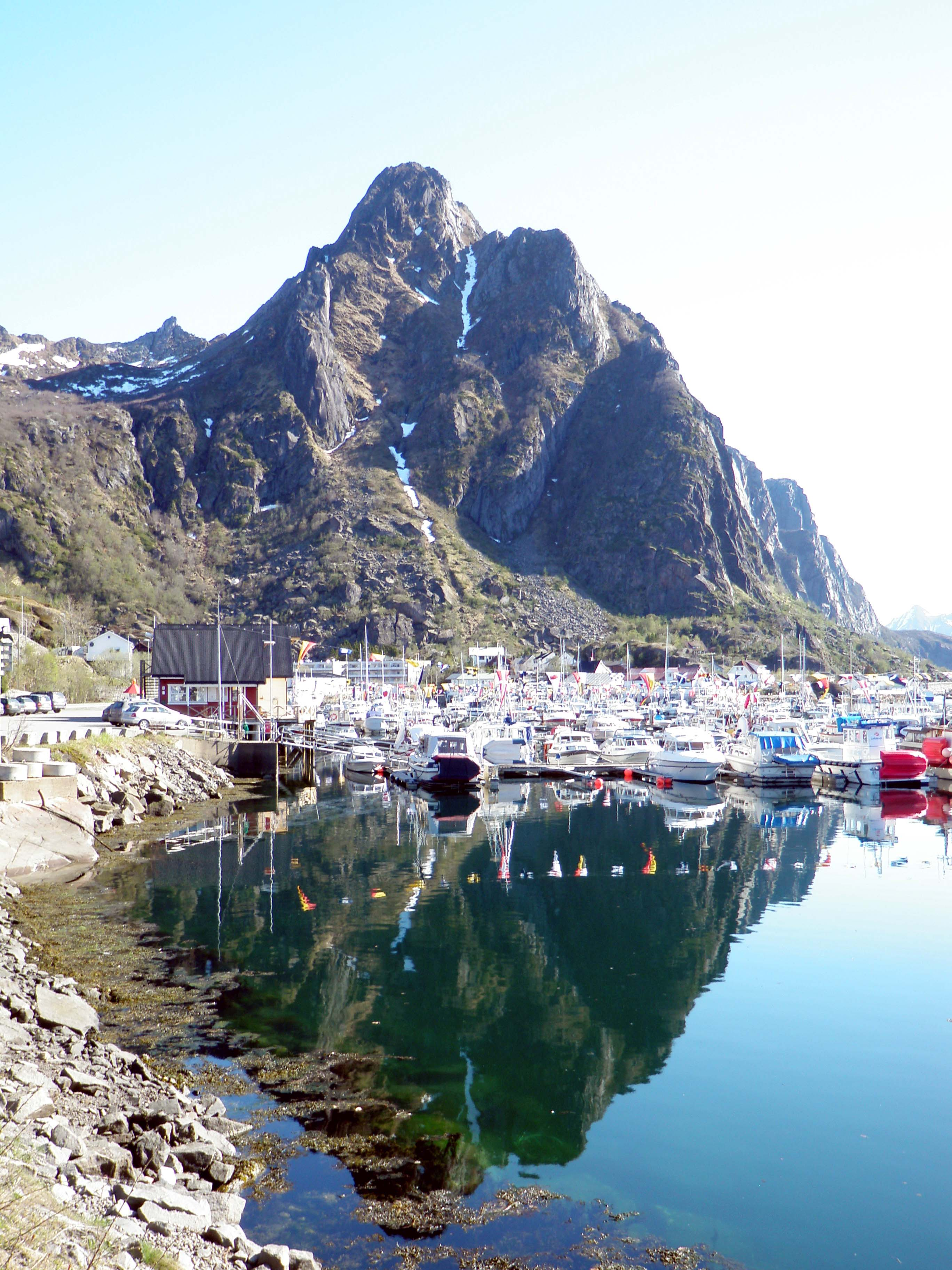 The mountain Fløyfjellet in Vågan, Nordland, Norway, overlooking a marina. Viewed from Svolvær.